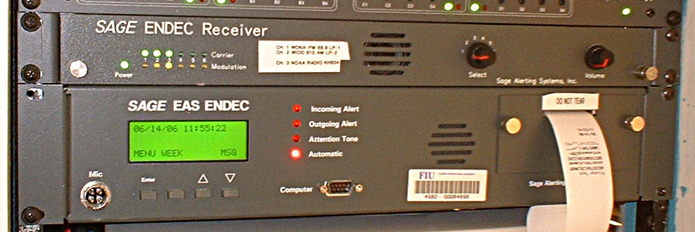 A Sage Alerting Systems EAS ENDEC and matching receiver, used to receive and propagate EAS alerts.